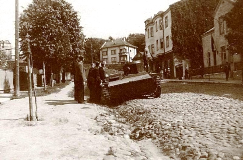 Lithuanian Activist Front rebels inspects the deprived T-38 tank from the Soviet Army.